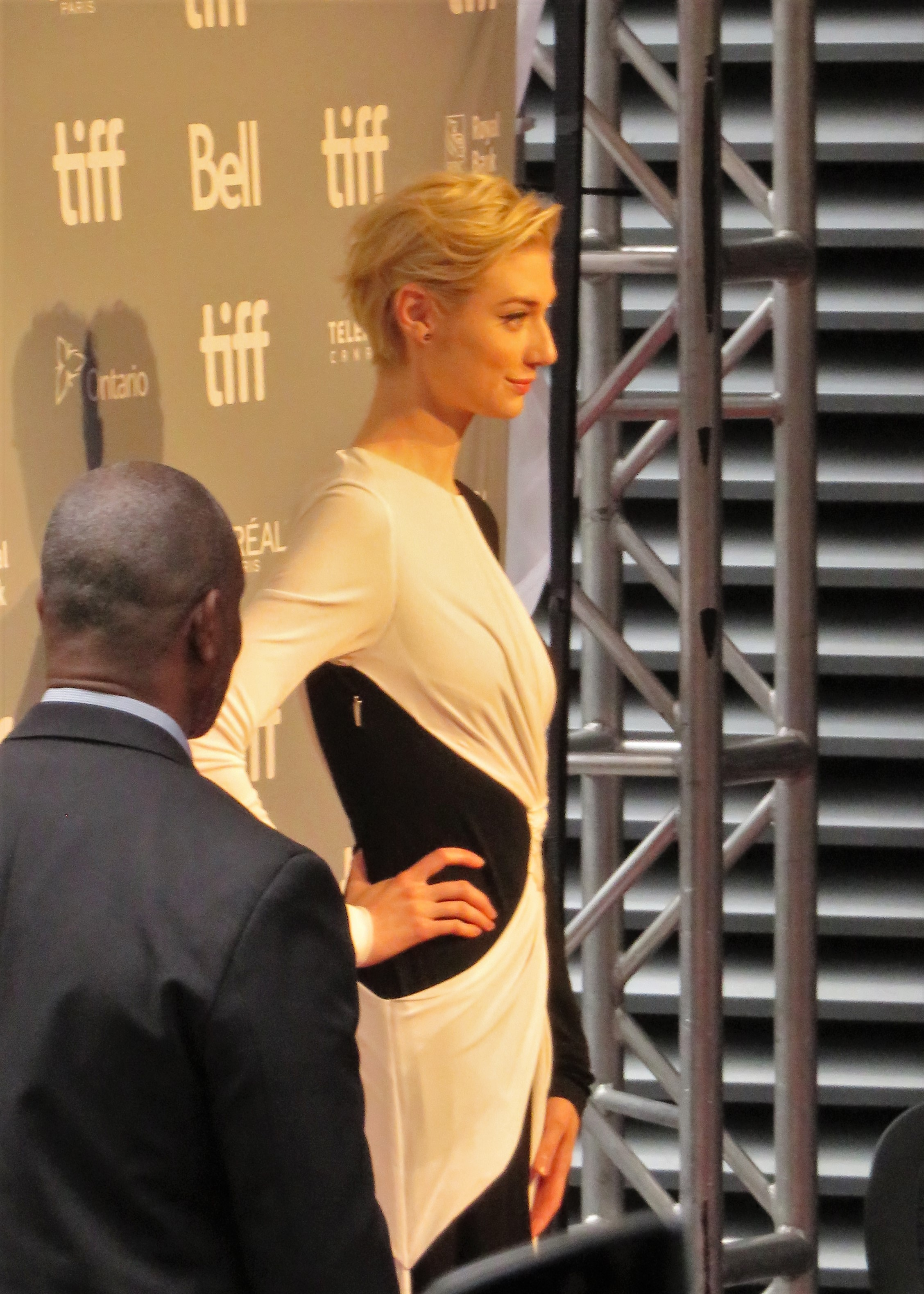 Elizabeth Debicki at the press conference of Widows, 2018 Toronto Film Festival